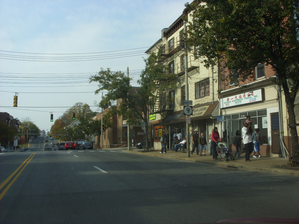 Delaware Route 9 (West 4th Street) west of the intersection with Market Street in Wilmington